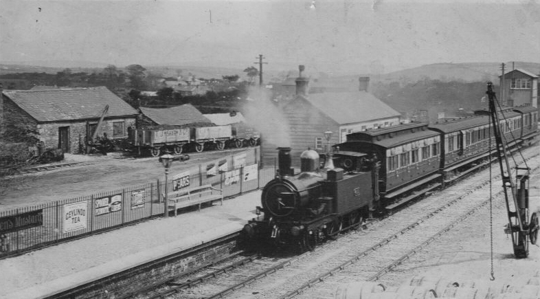 Bugle station on the Newquay branch line in Cornwall, United Kingdom. A Great Western Railway 455 Class 2-4-0T calls with a four-coach passenger train. In the sidings some wagons owned by T.J. Sharp await loading with china clay (kaolin) for Fowey where the conents will be loaded in ships for onward transport.